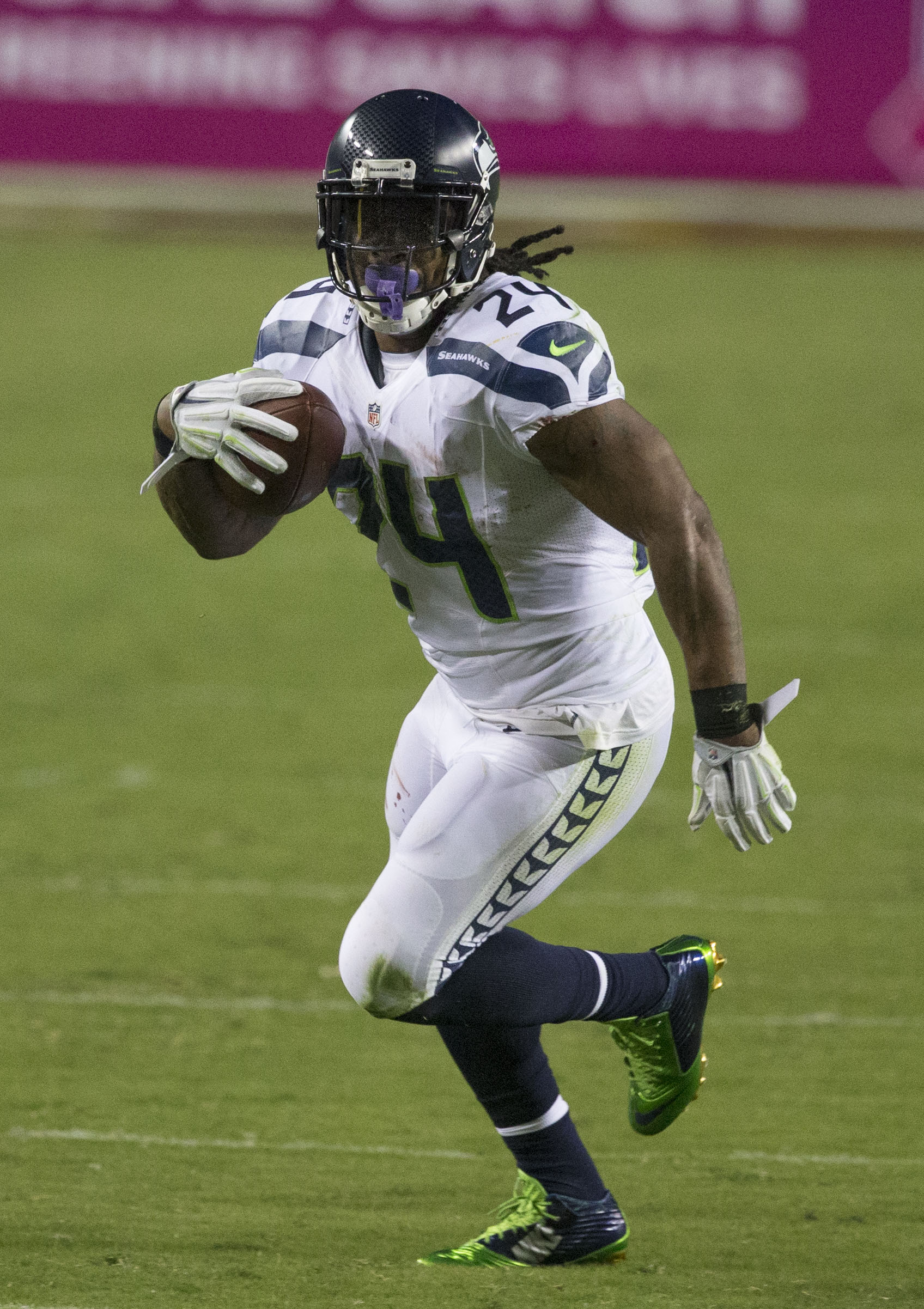 Seahawks at Redskins 10/6/14